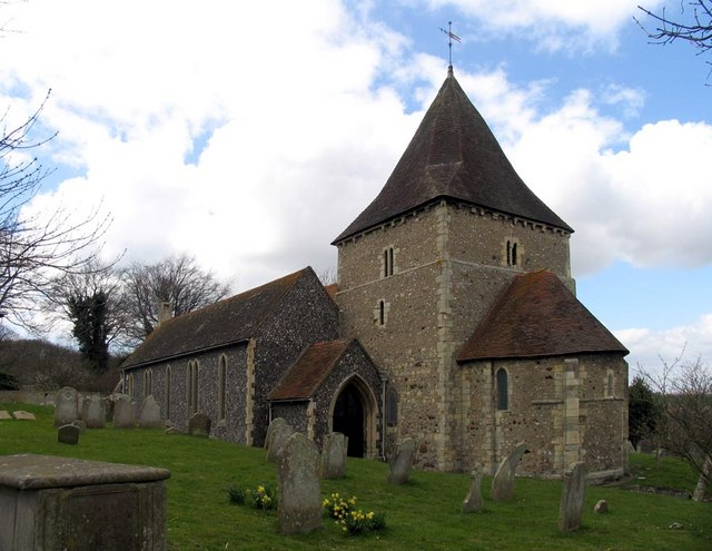 St Michael's parish church, Newhaven, East Sussex